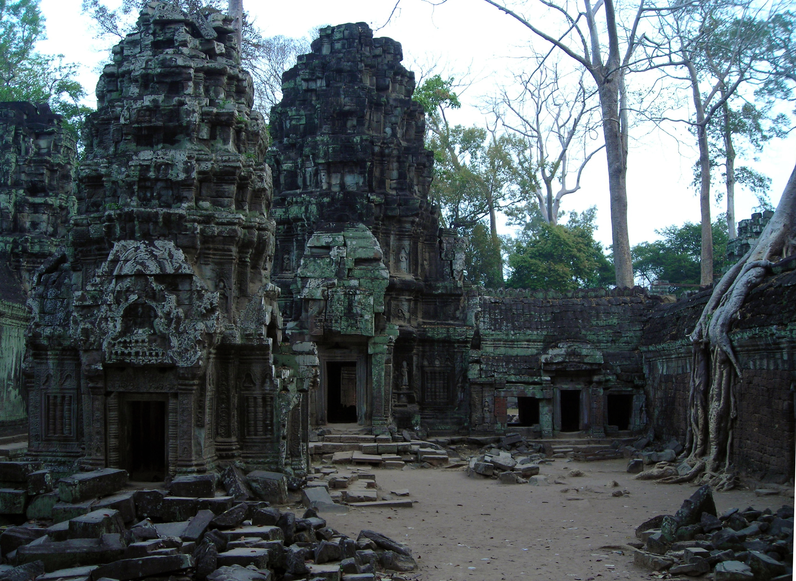 The Ta Prohm temple in Angkor, Cambodia